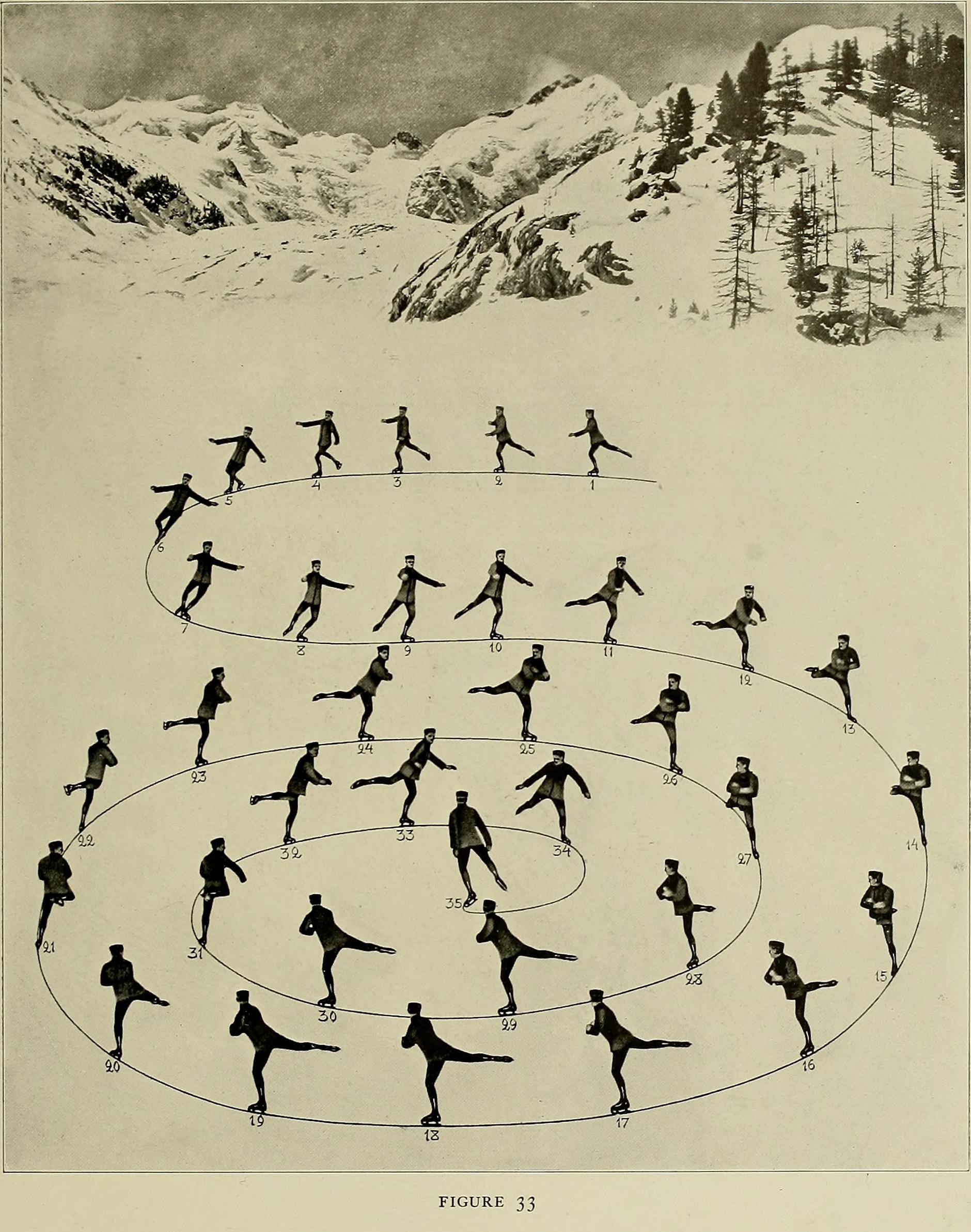 Title: Skating with Bror Meyer Year: 1921 (1920s) Authors: Meyer, Bror Subjects: Skating Publisher: Garden City, New York (etc.) Doubleday, Page and company Text Appearing Before Image: FIGURE 32 Figure 32. Inside Forward Spiral. In this spiral the body is more erect withthe unemployed arm in advance. Complete by aone-foot pirouette. FREE :SKATING 103 Text Appearing After Image: FIGURE 33 Figure 33. Inside forward spiral with the arms crossed in front. This spiral com-mences on the outside forward edge. I04 SKATING WITH BROR MEYER